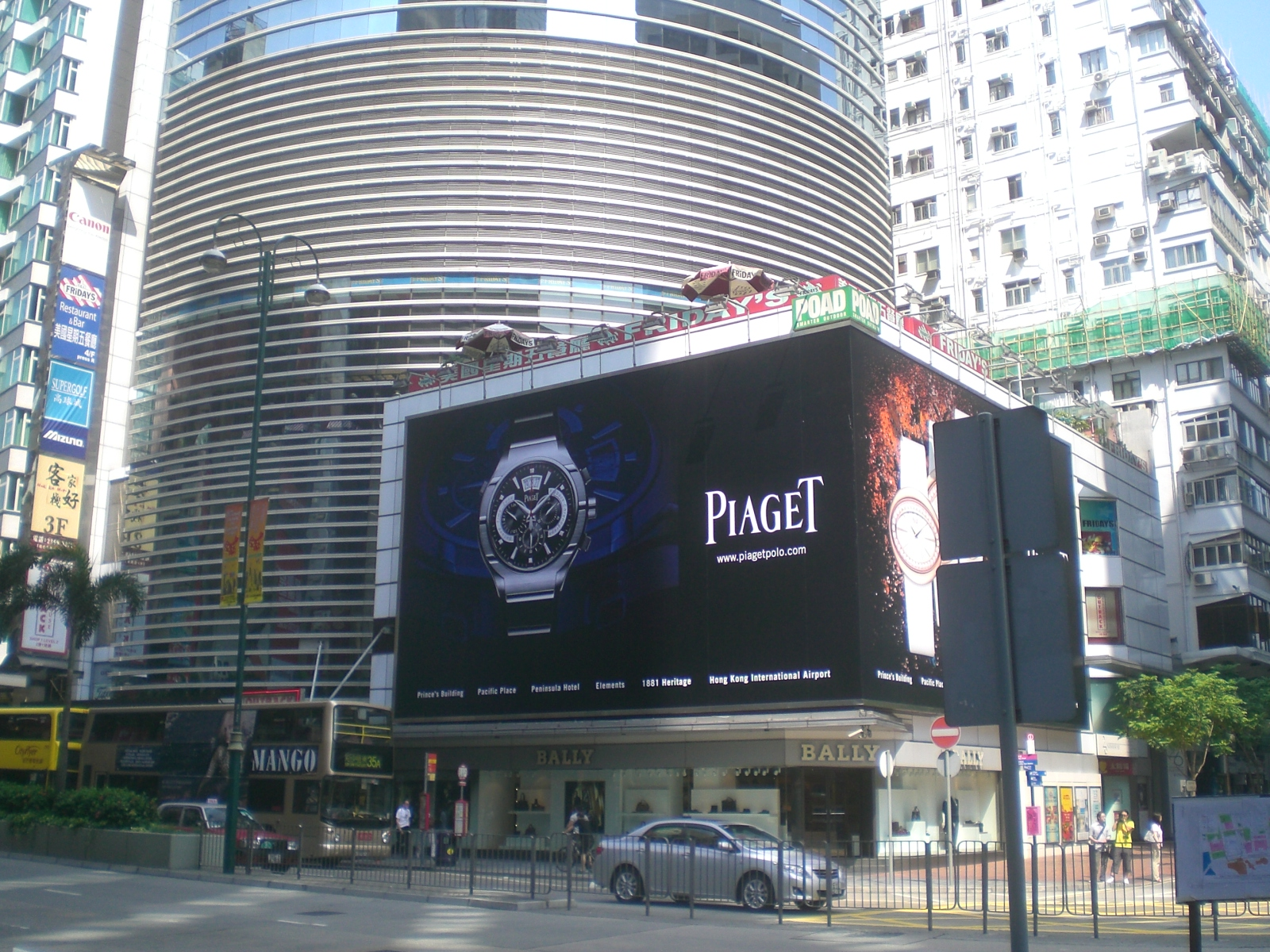 香港zh:尖沙咀 戶外廣告版 東企業廣場